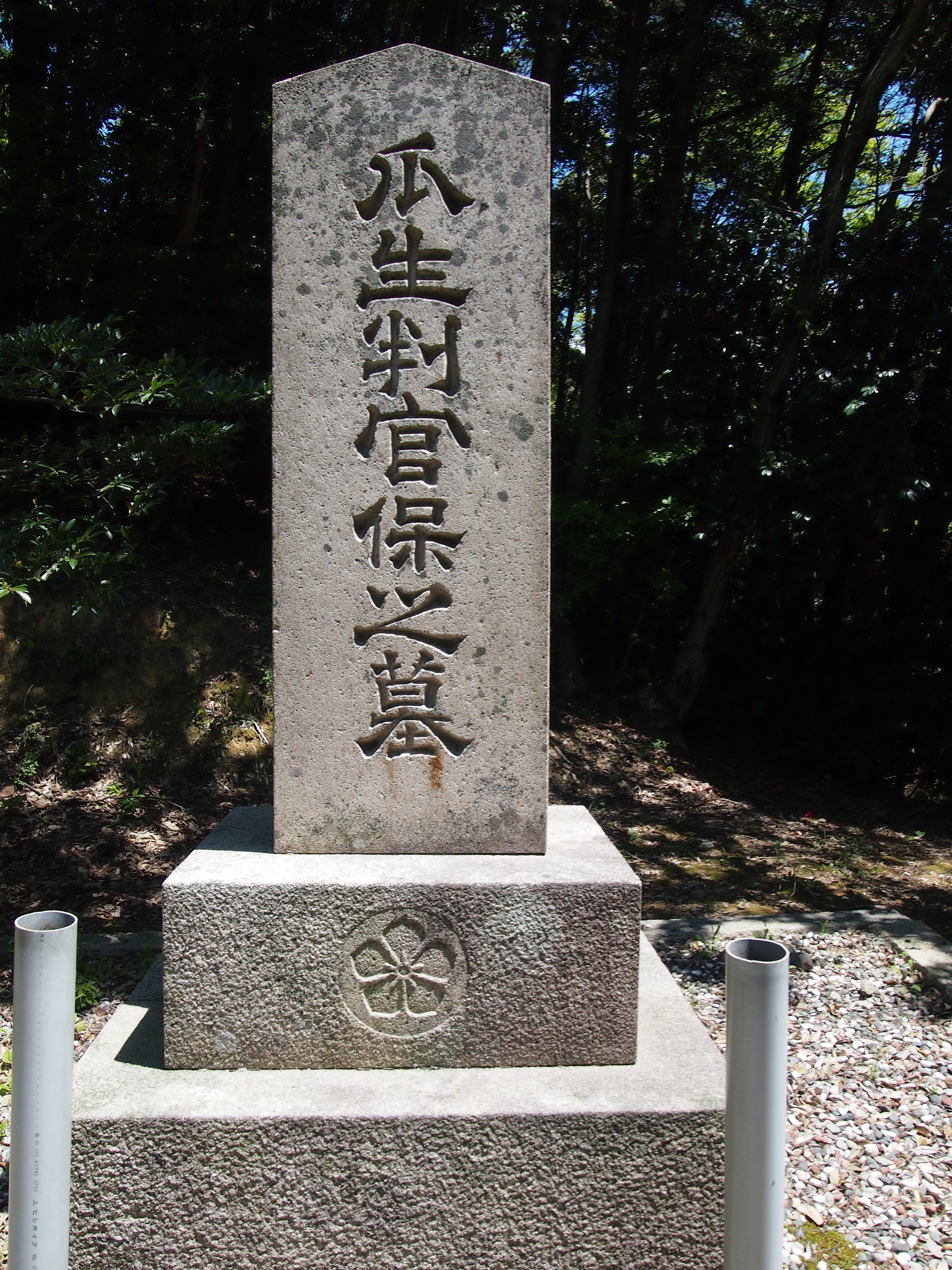 The death place of Uryu Tamotsu. He died in the battle of the 14th century in Tsuruga, Kashimagari, Japan.